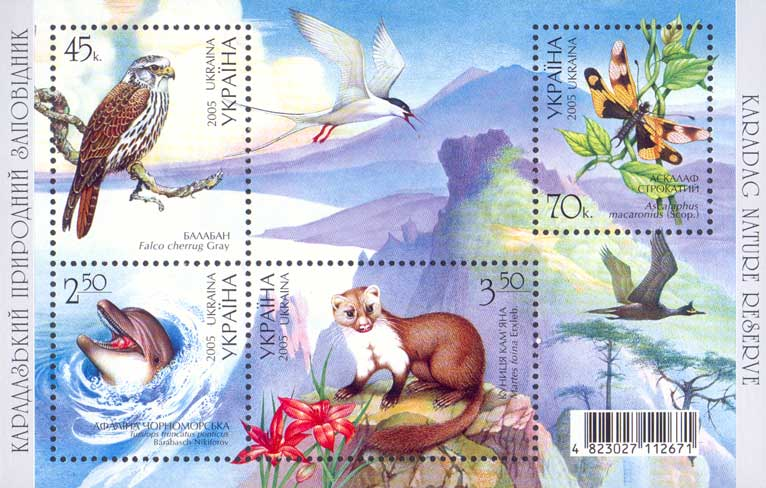 Stamps of Ukraine